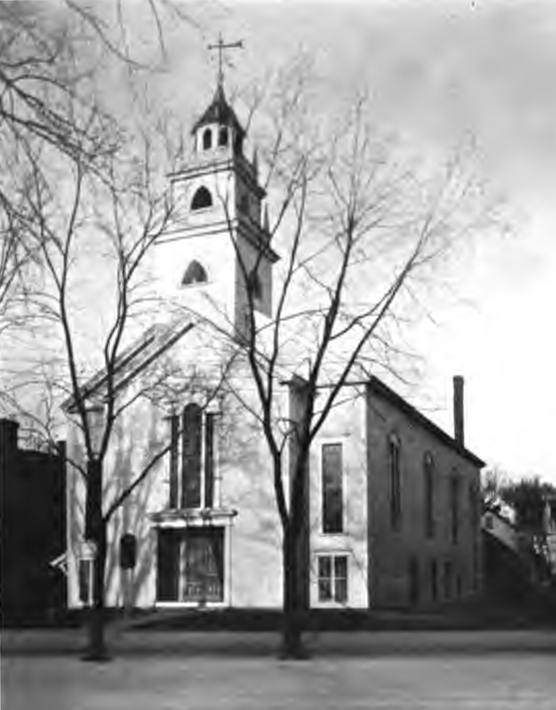 The Congregational church at Tilton, NH Mary Baker Eddy was a member of this church for many years and taught a class in the Sunday-school.